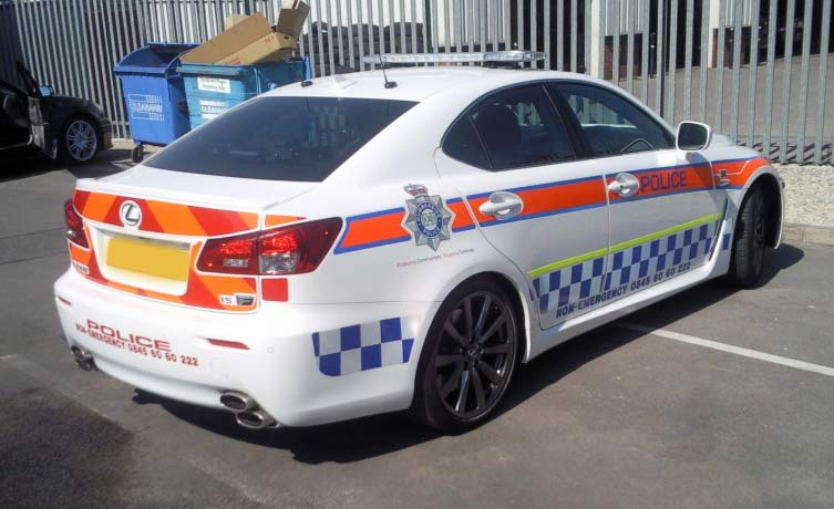 I wouldnt mind bein pulled by this